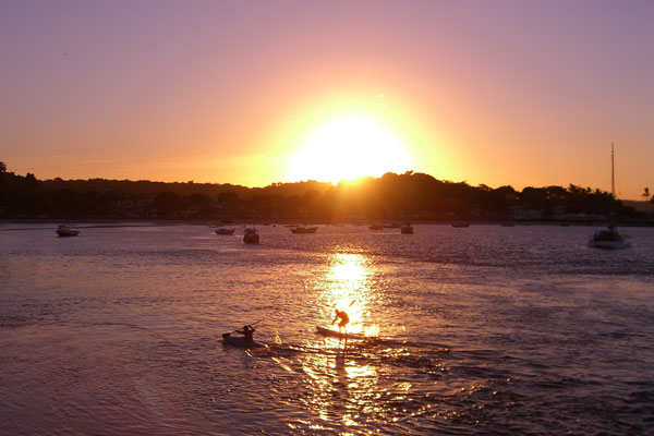 The sun sets over Itacaré on Feb. 9, 2006. Taken by C. Spencer Beggs.